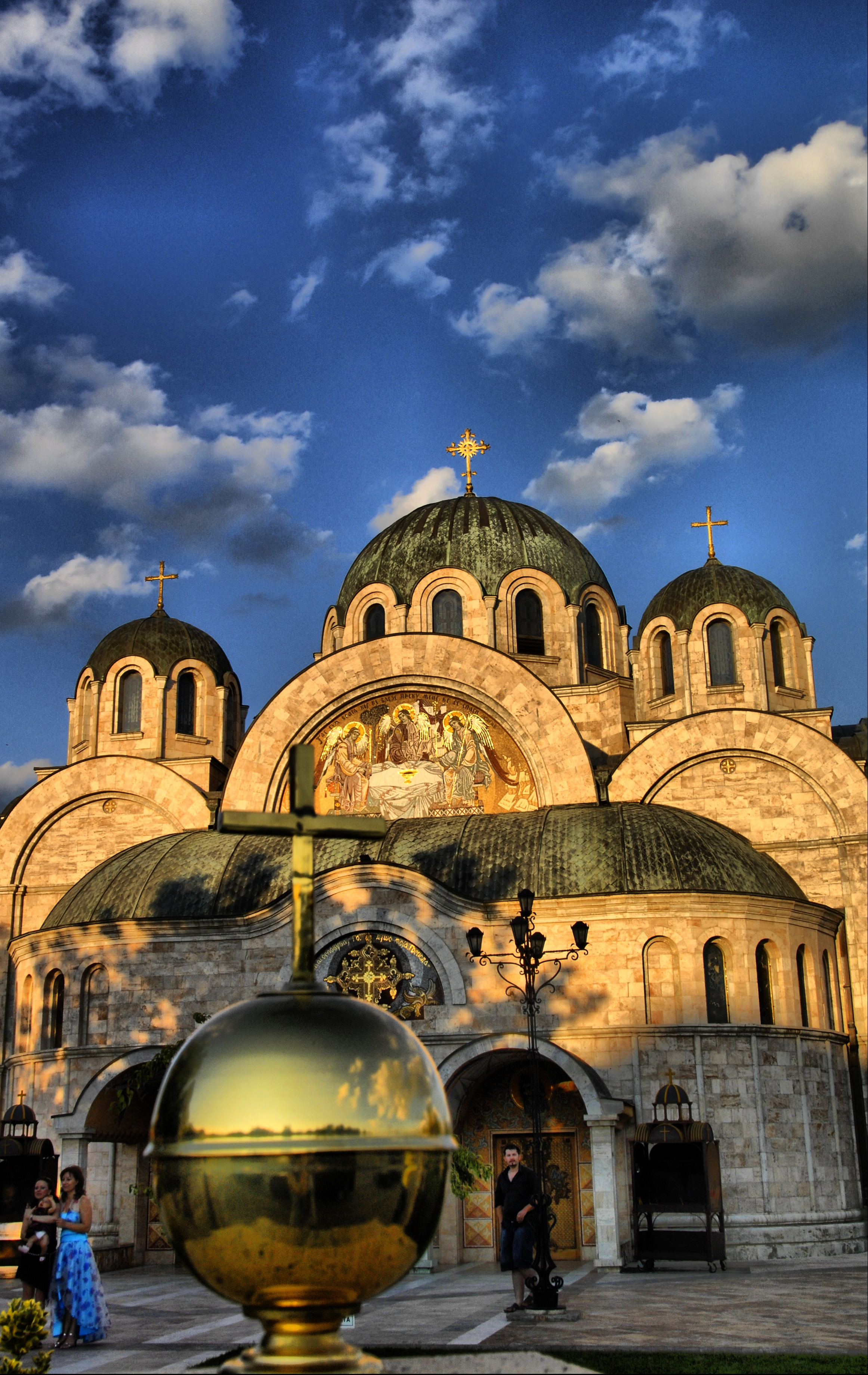 Holy trinity church in Radoviš, Macedonia